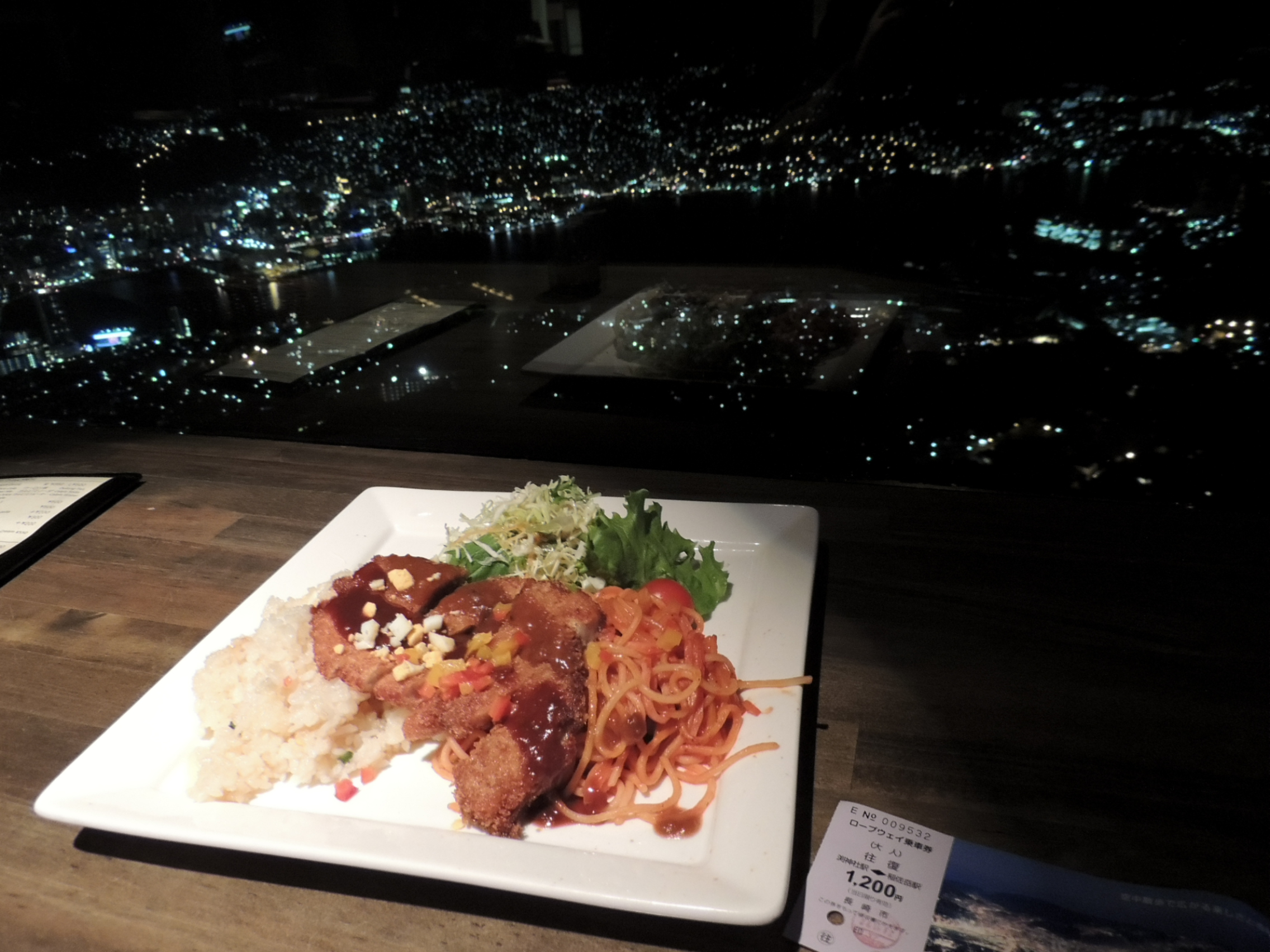 Nagasaki Style Toruko Rice(Toruko:Turkey.but unknown Turkey in origin).